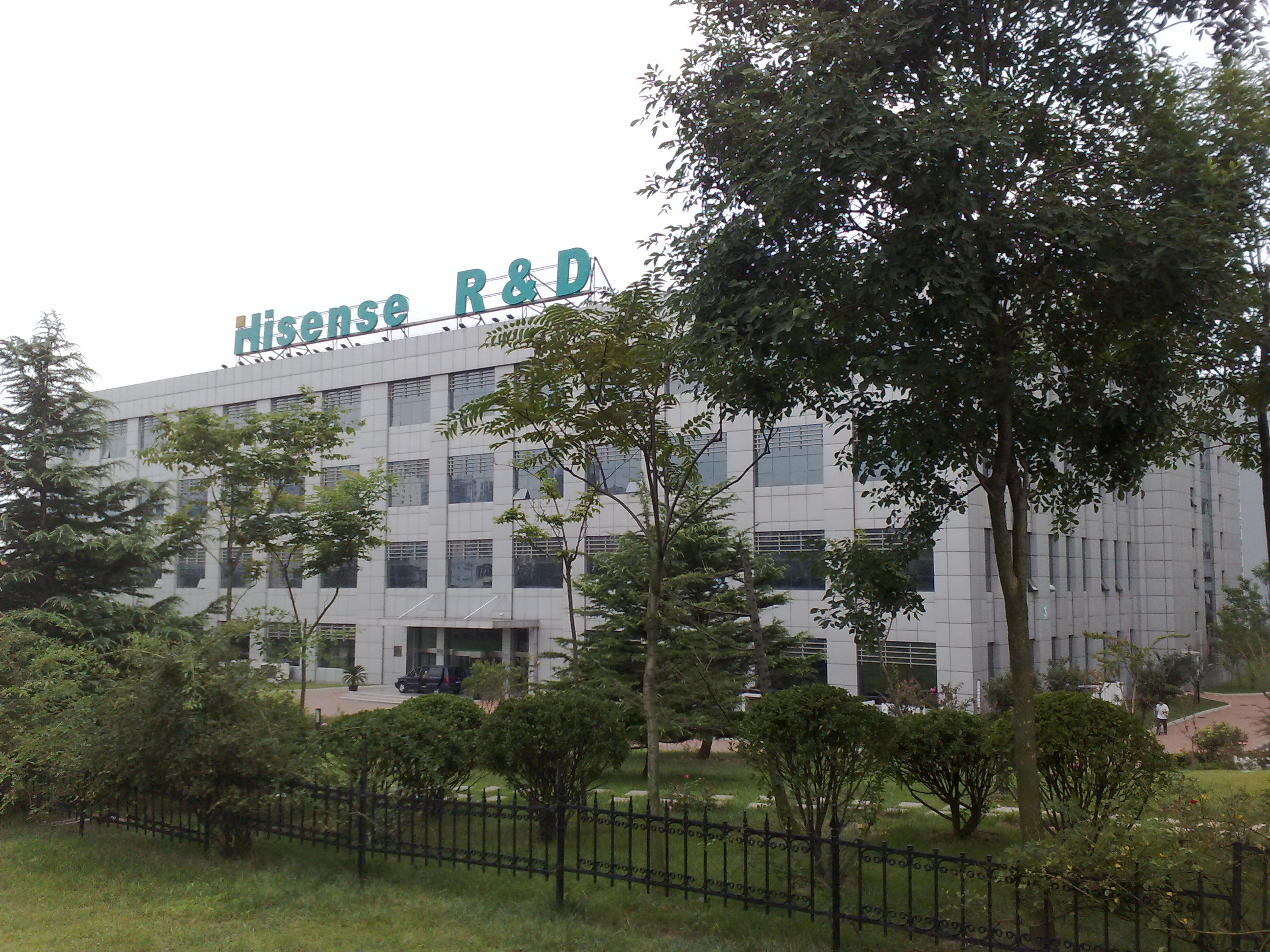 hisense Group R&D